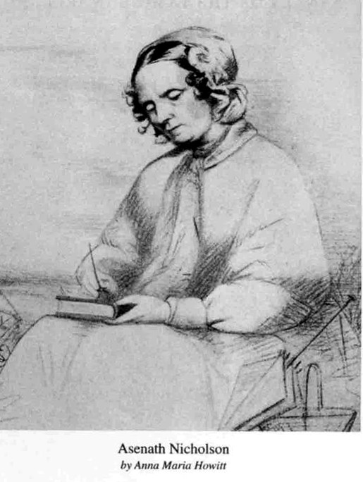 Asenath Nicholson by Anna Maria Howitt (dies 1888)